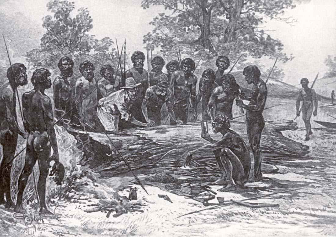 An artist's impression of Batman's treaty with Port Philip, Australia aborigines in 1835 for the purchase of 600,000 acres of land.